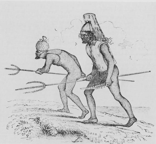 Gilbertese warriors of Tabiteuea, with shark's teeth weapons (shark's tooth weapon: trident Taumangaria, sword Terere) and cocos fibres war armours (gilbertese: Te tanga ni buaka), about 1841 (Kiribati, former Gilbert Islands)